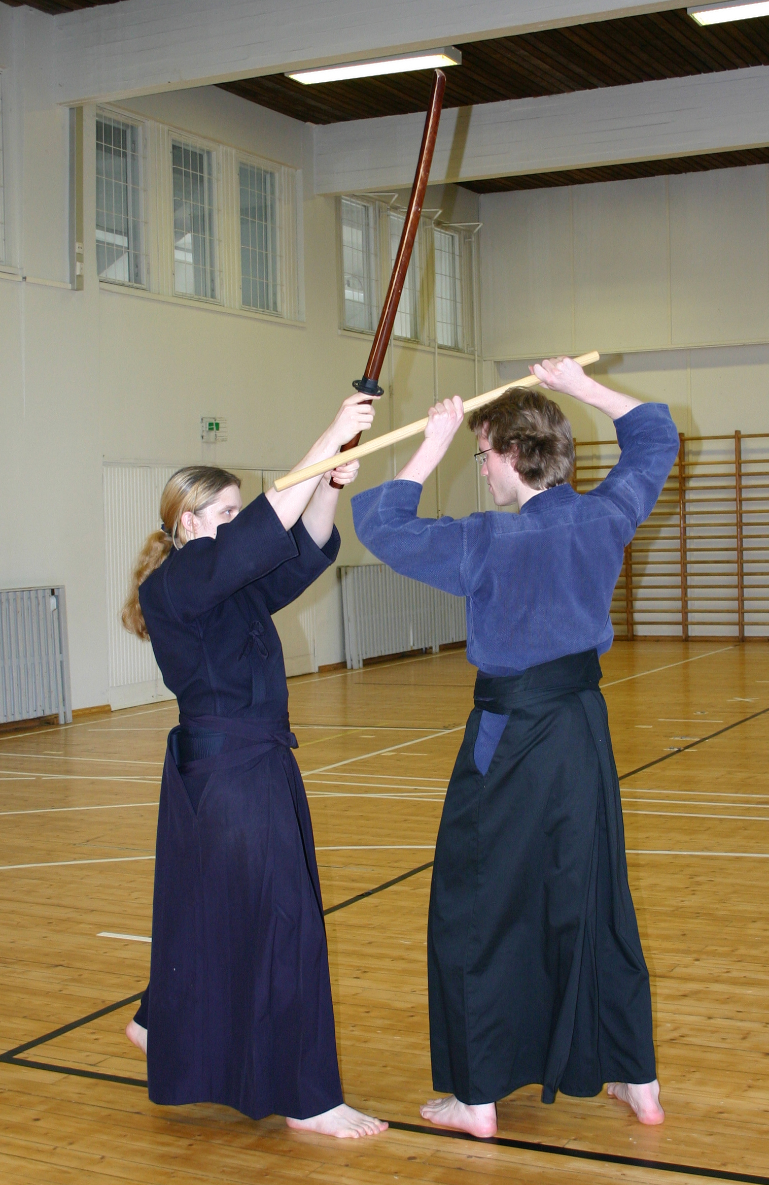 Uchida-ryū tanjōjutsu_technique